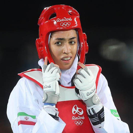 Taekwondo at the 2016 Summer Olympics - Women 57kg